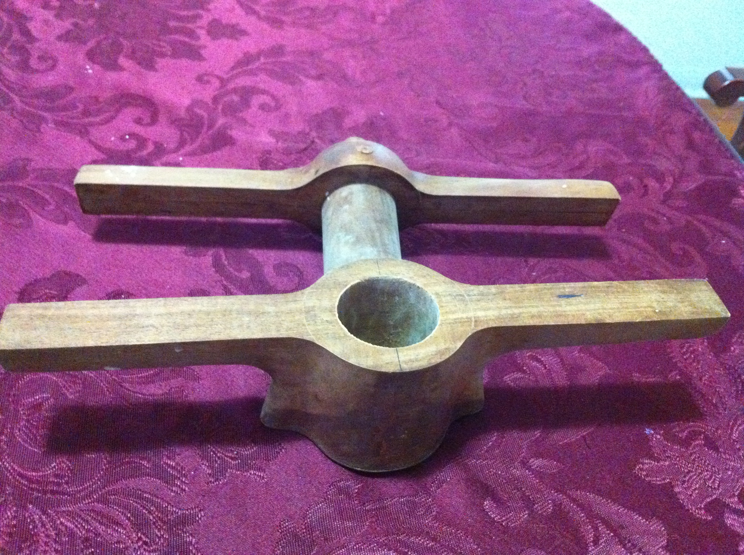 Idiyappa maker